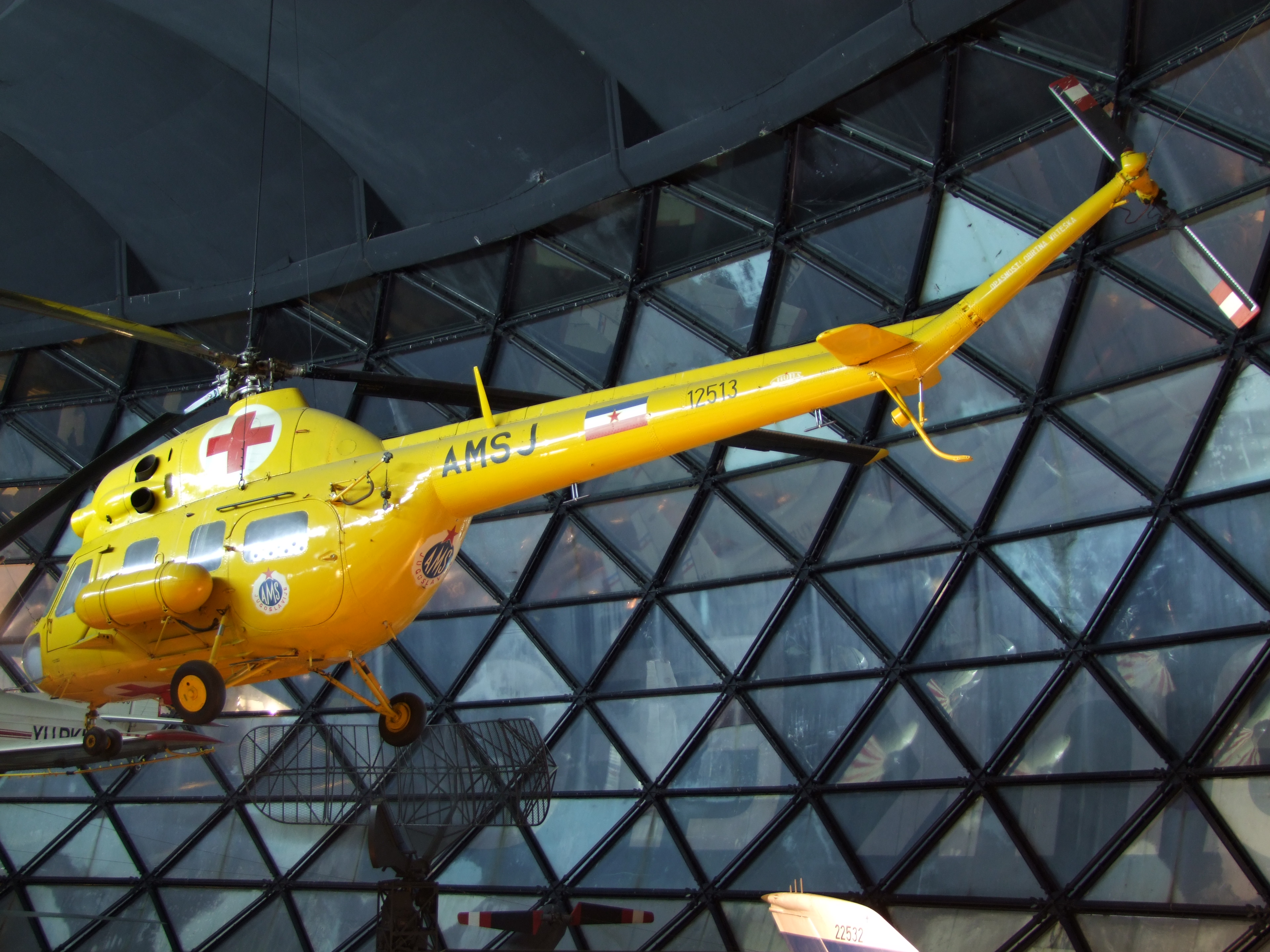 WSK-PZL Mi-2